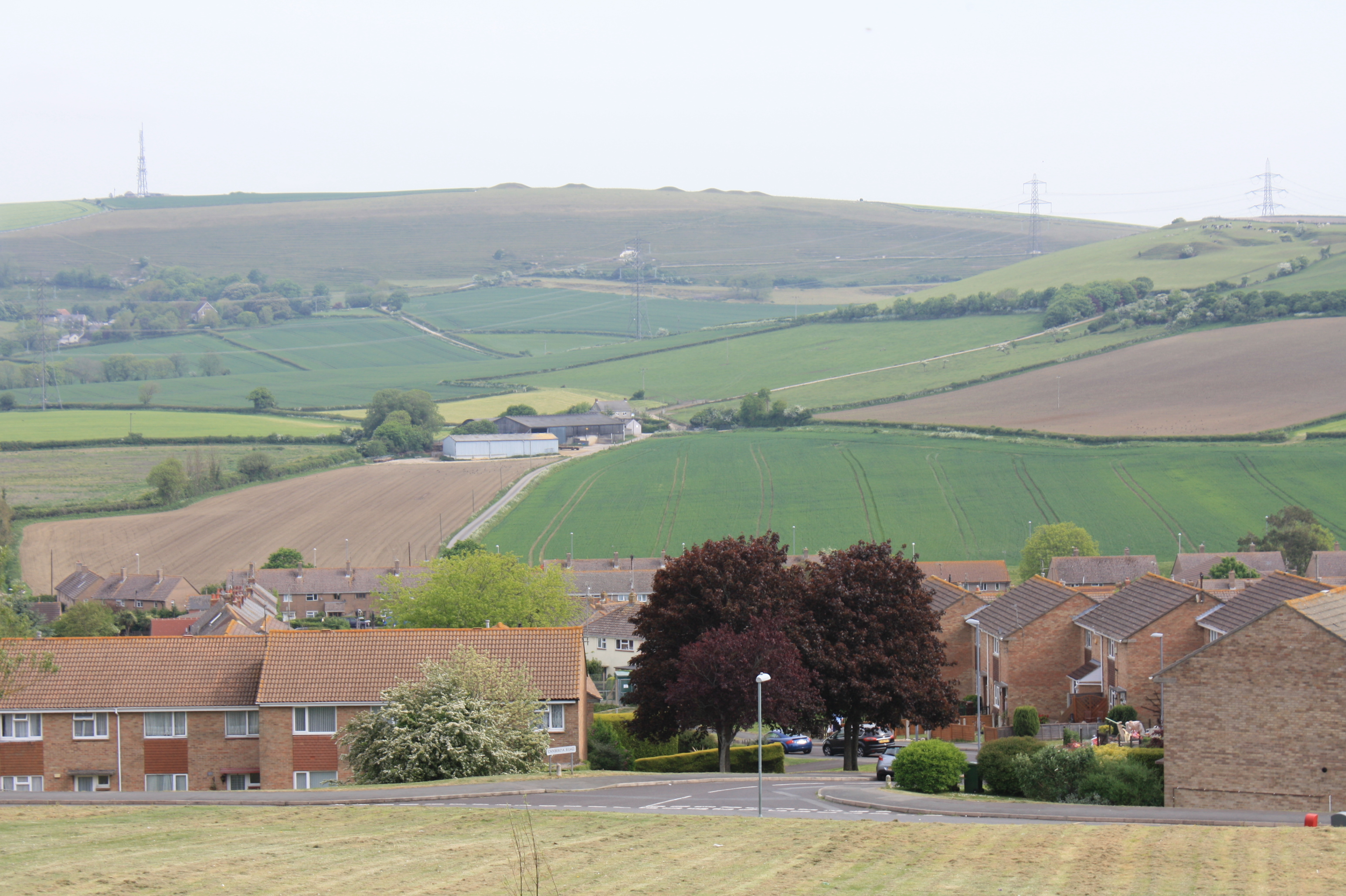 A view of Littlemoor and Bincombe Bumps